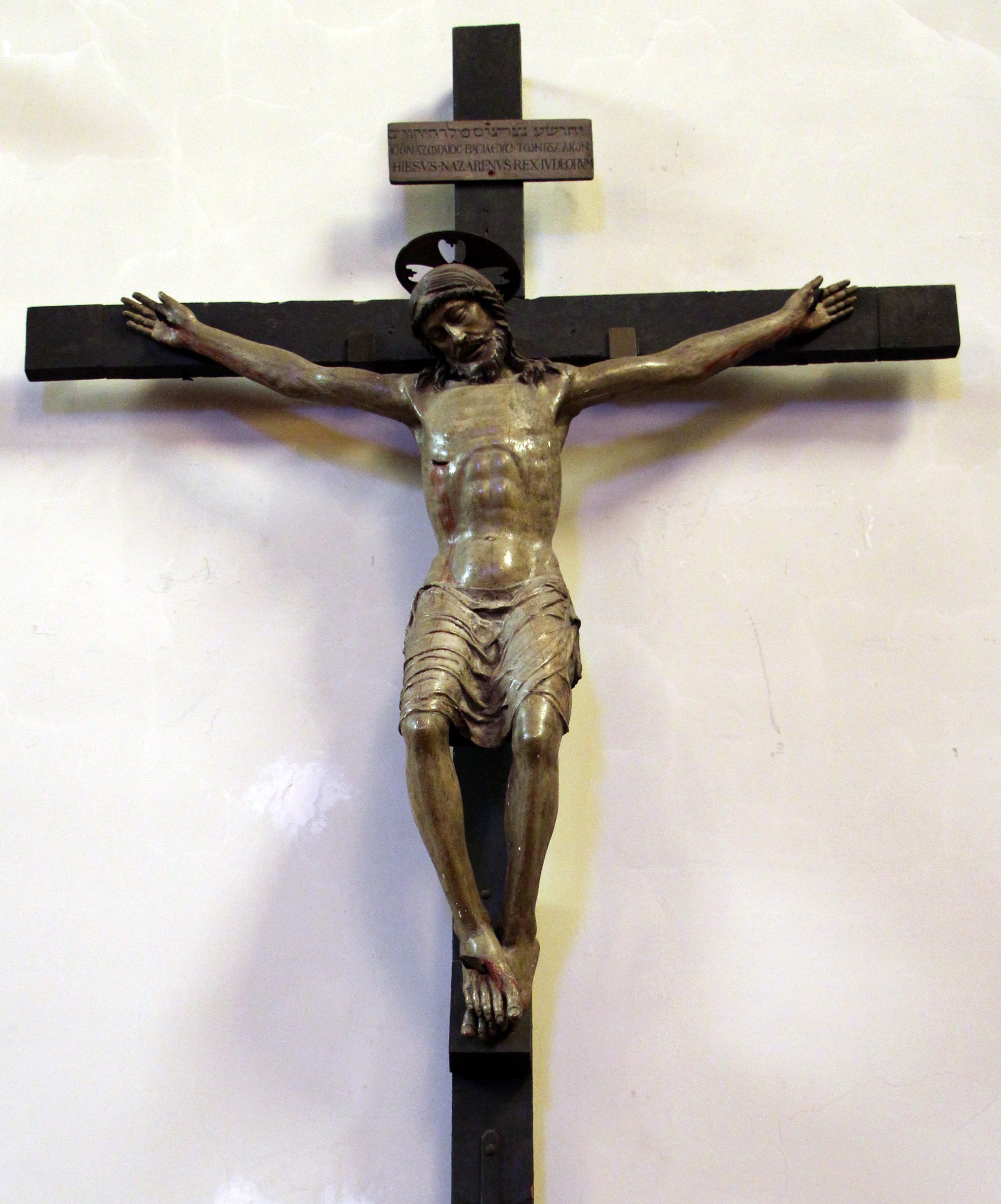 Immacolata (Florence) - Interior